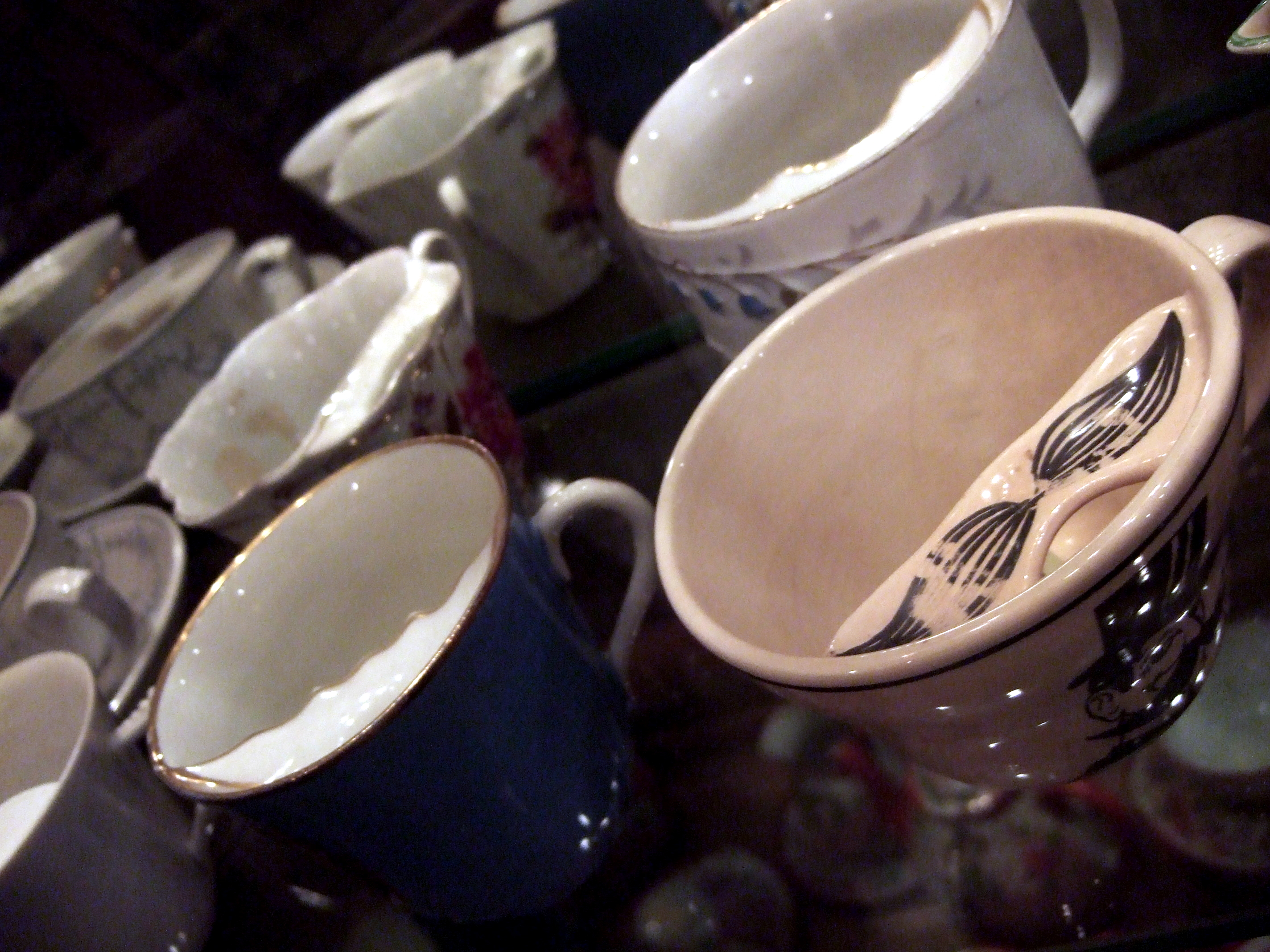 Moustache cups, to keep moustaches dry while drinking teaTea museum